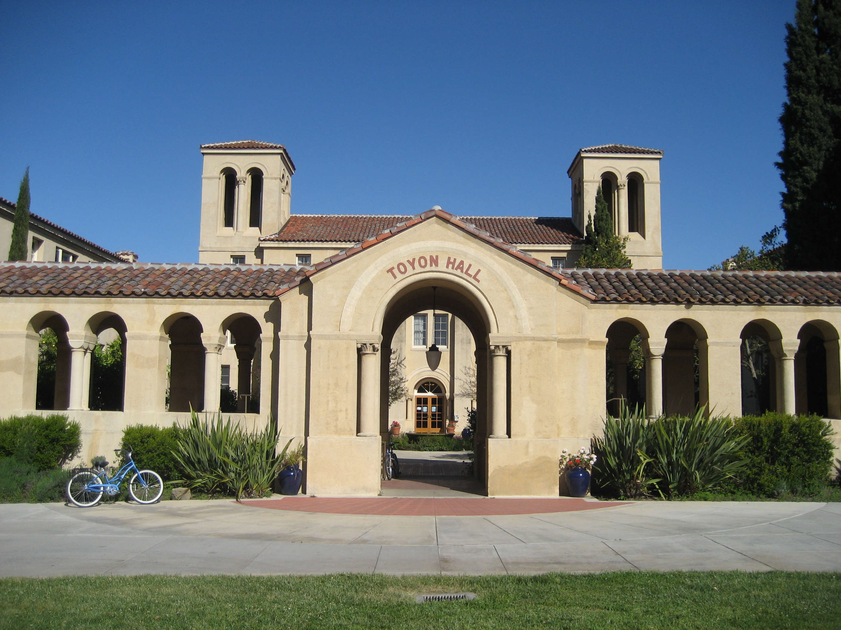 Entrance shot of Toyon Hall dormitory at Stanford University.